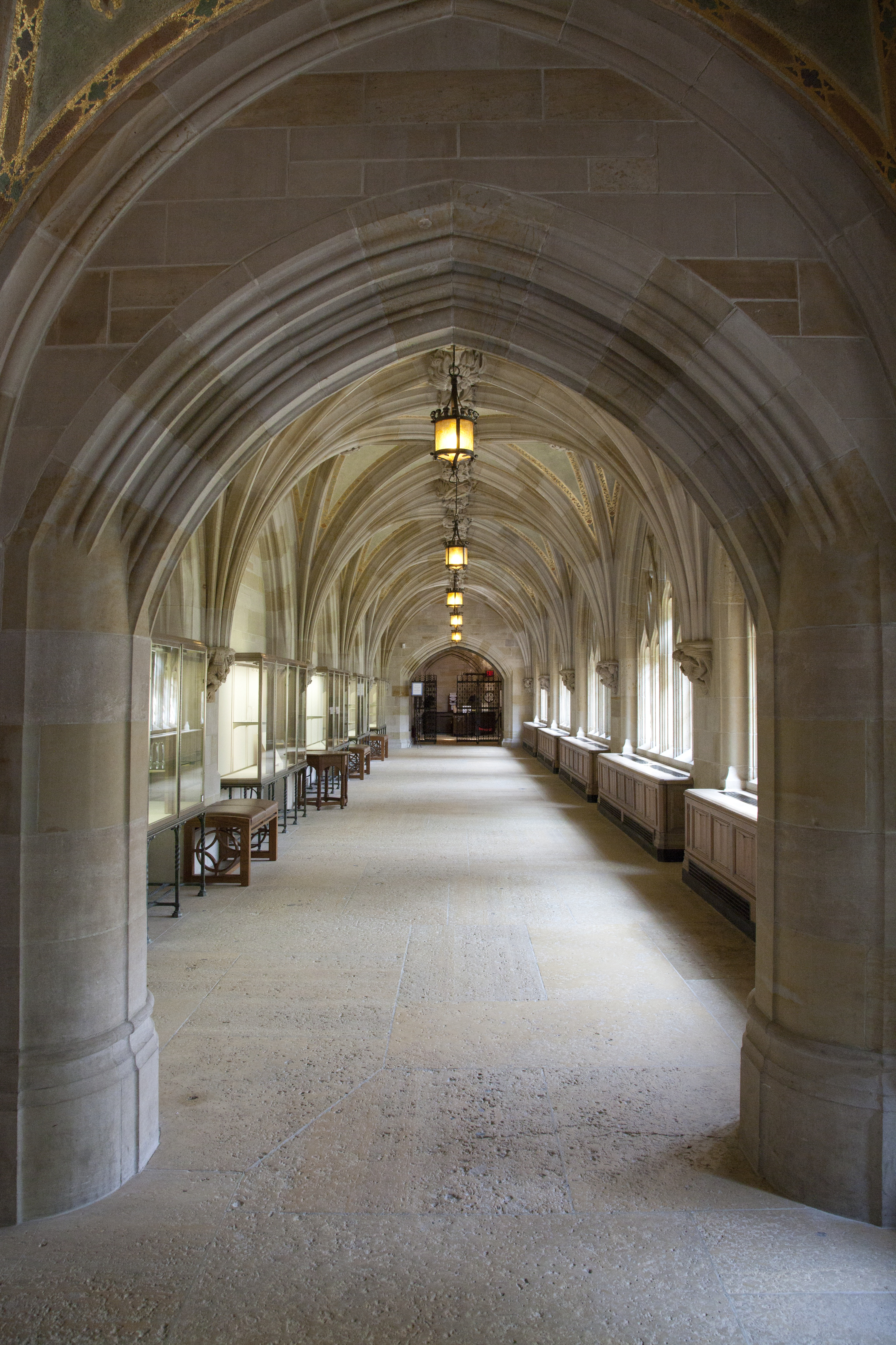 Cloister hallway of Sterling Memorial Library from nave, Yale University, New Haven, CT